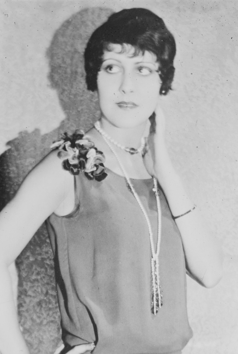 Patsy Ruth Miller